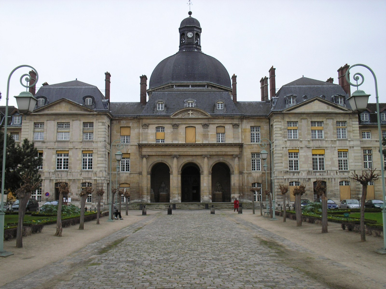 Photo of the Chapel at the Pitié-Salpêtrière Hospital, Paris. Photo by Vaughan 16:18, 5 March 2007 (UTC)